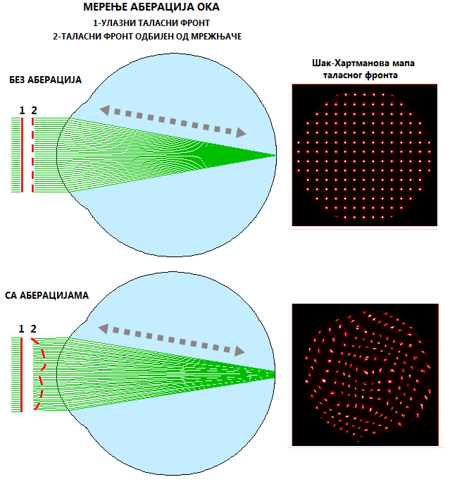 МЕРЕЊЕ АБЕРАЦИЈА ОКА